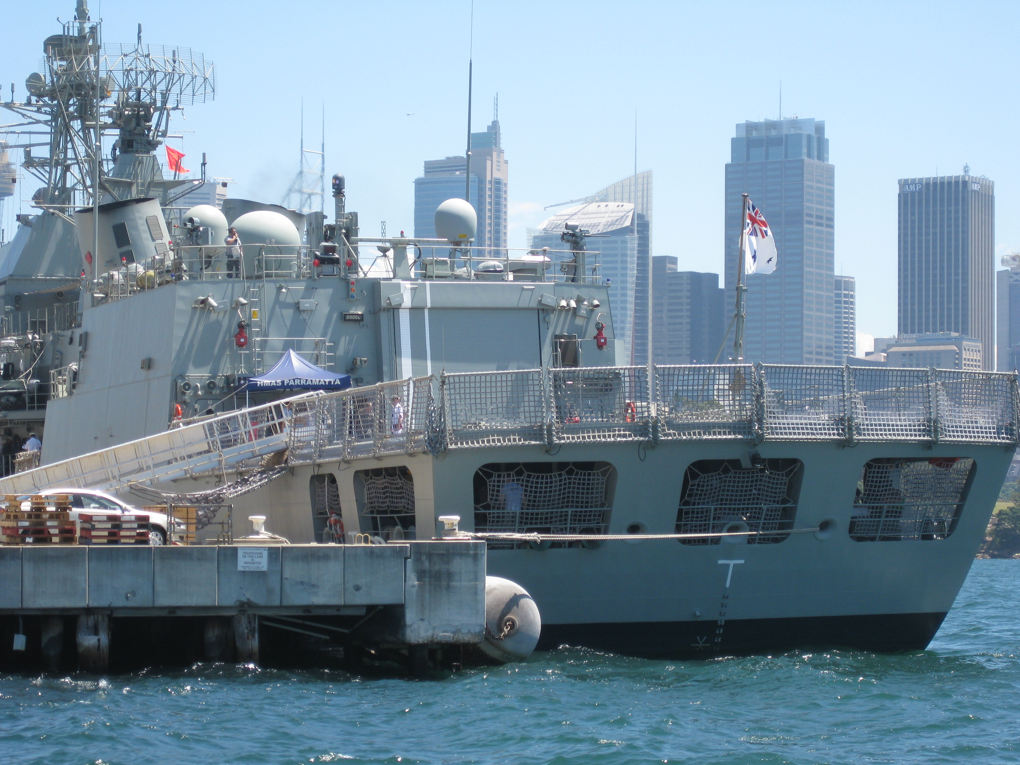 Stern view of HMAS Parramatta alongside at Garden Island during January 2010